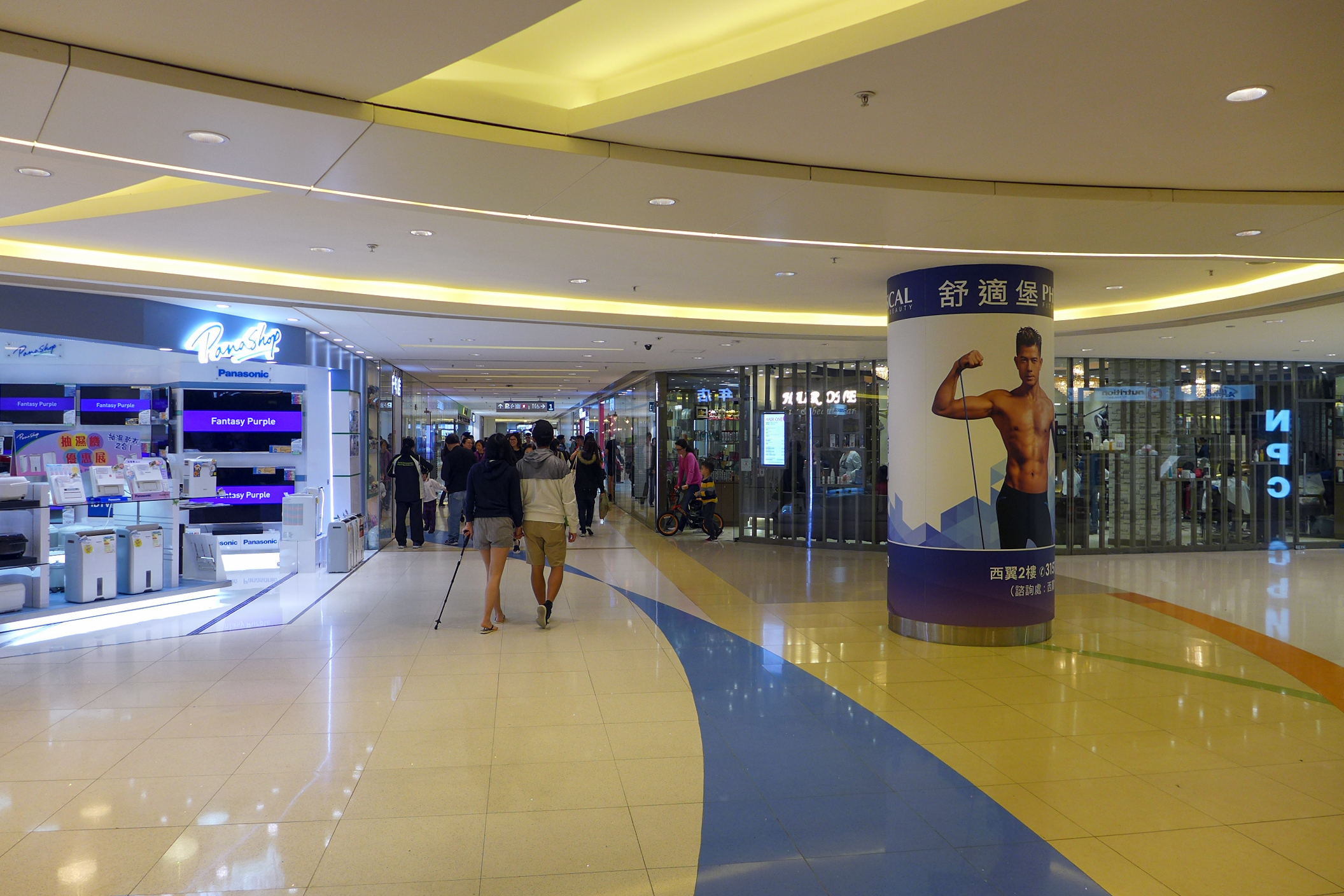 TKO Gateway Level 1 West access